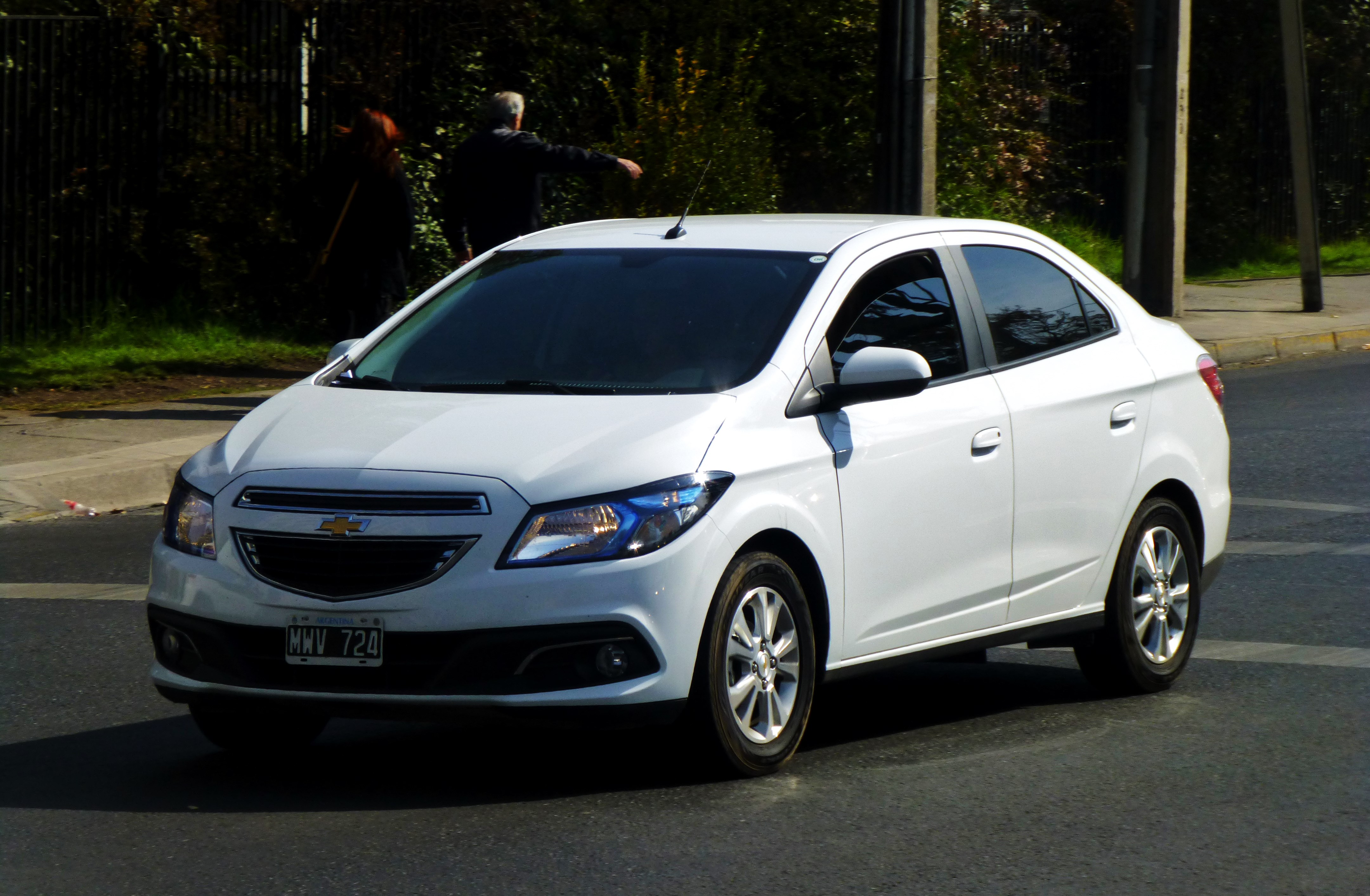 Chevrolet Prisma, sold in Brazil, Uruguay and Argentina. A booted version of the also Mercosur-only Chevrolet Onix. Spotted in Chile, with Argentine plates.